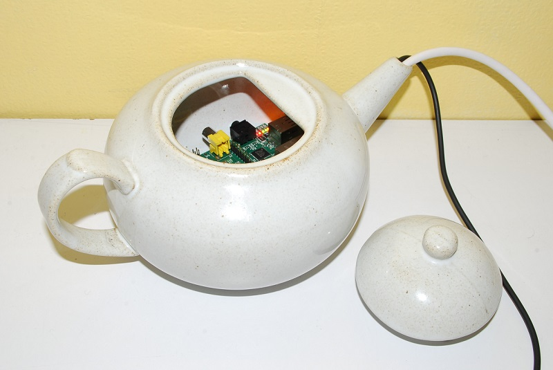 HTCPCP implementation